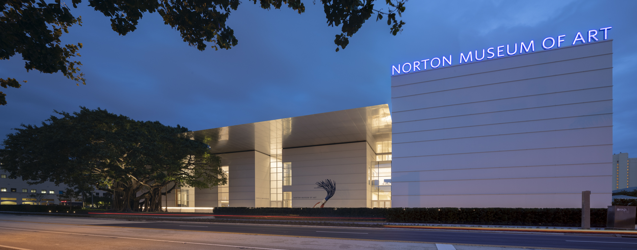 Front of redesigned Norton Museum of Art in February 2019, designed by Foster & Partners. Photo taken by Nigel Young.